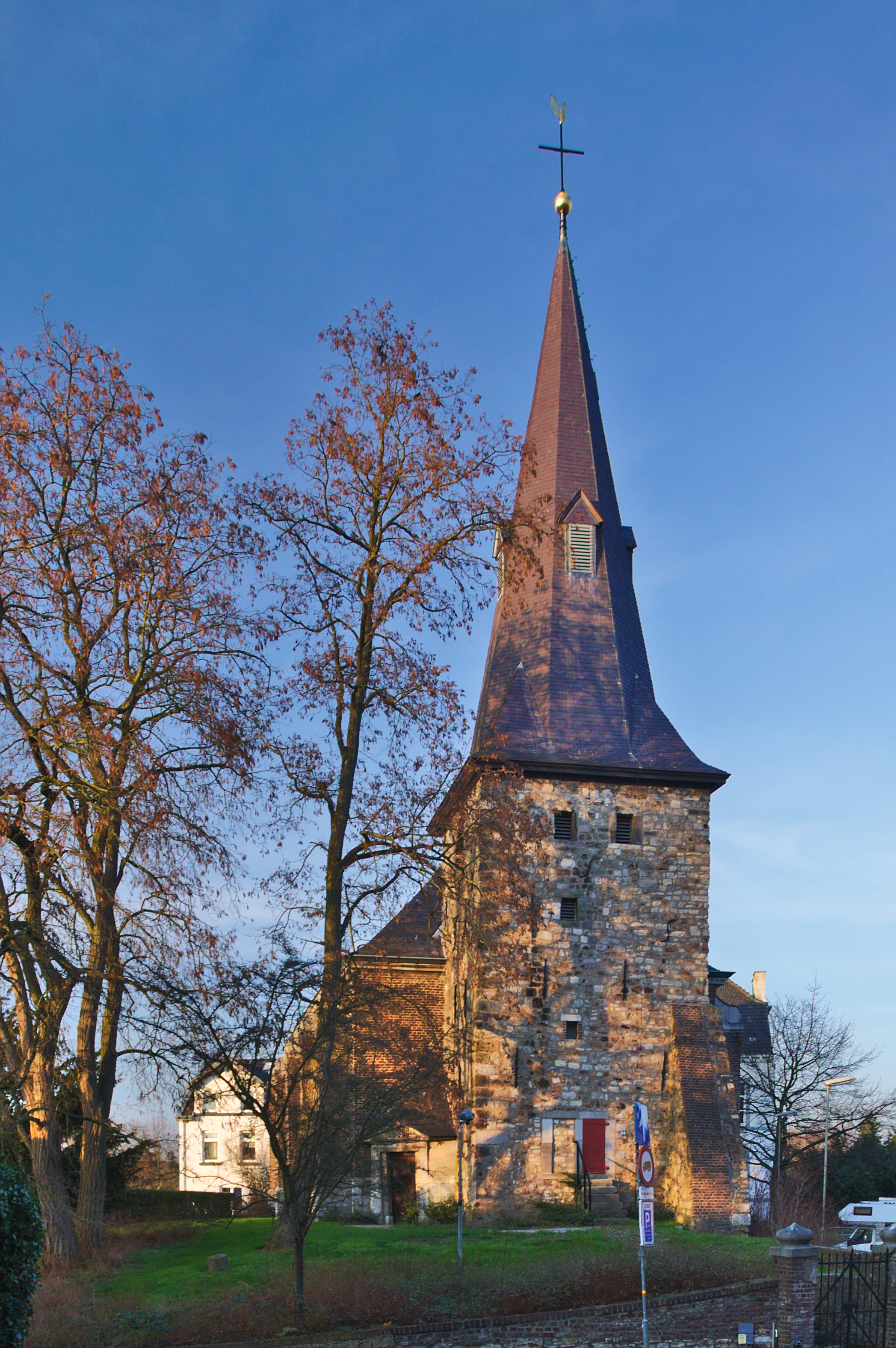 Hervormde church, Vaals